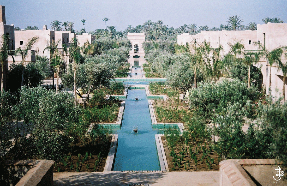 dl2a architecture